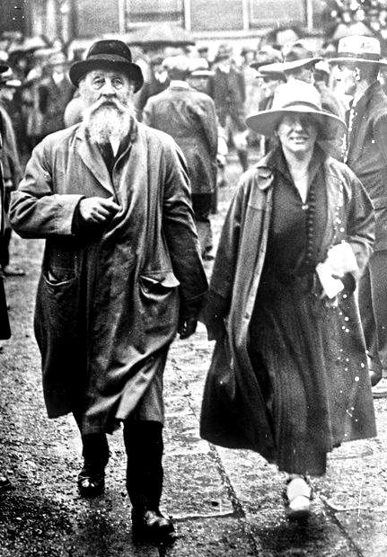 Count Plunkett in Dublin (August 16th or 17th 1921)